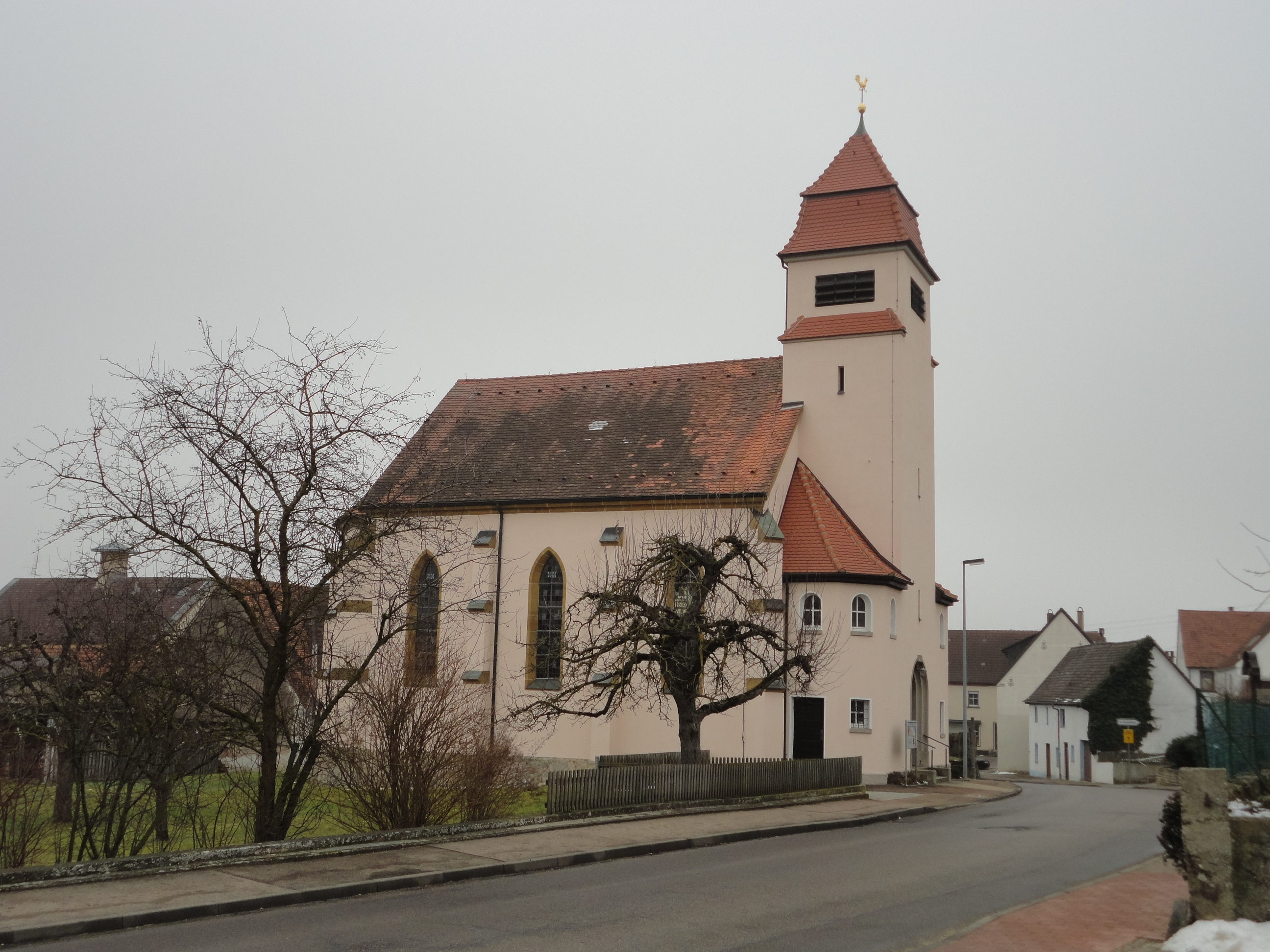 North-western view of Protestant church in Pflaumloch, Riesbürg municipality, Ostalbkreis district, Baden-Württemberg state, Germany.